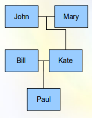 Family sample for Inductive Logic Programming article. This family is taken from Ivan Bratko's book.